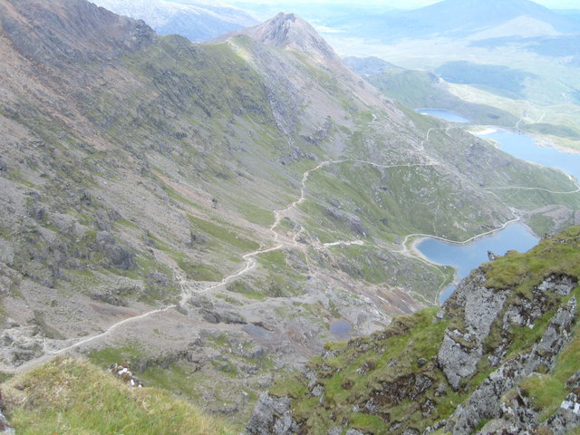 Crib Goch, Pyg track, Miners track, taken from Yr Wyddfa Snowdon